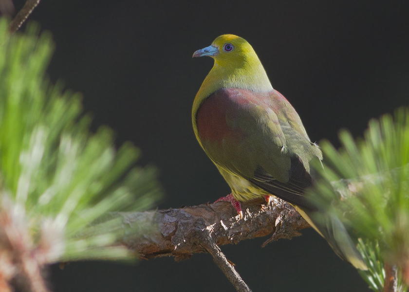 The species Wedge-tailed Green Pigeon had been photographed from Bhimtaal in Uttarakhand, India on 27.05.2016.